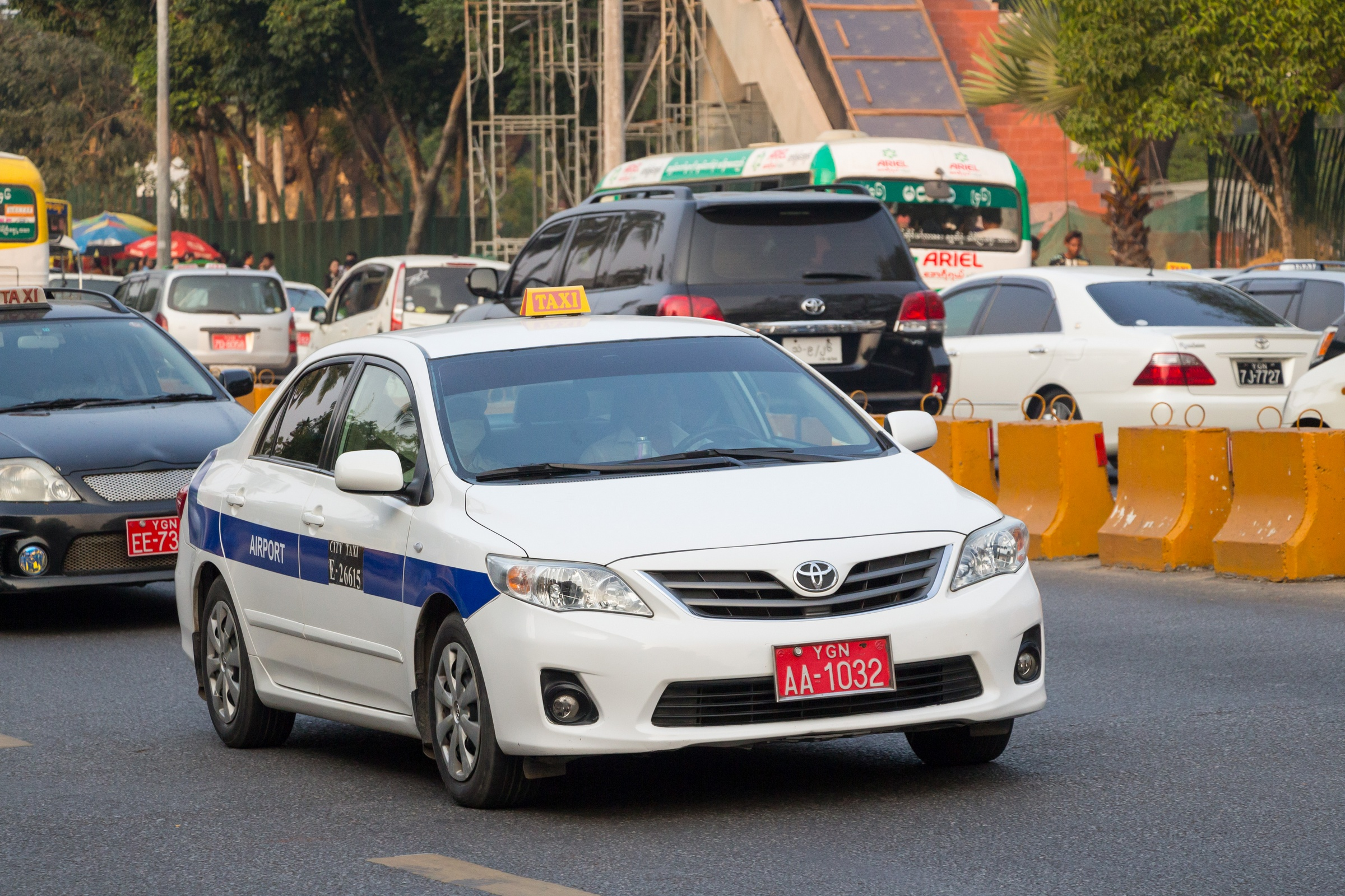 Taxi in Yangon, Myanmar